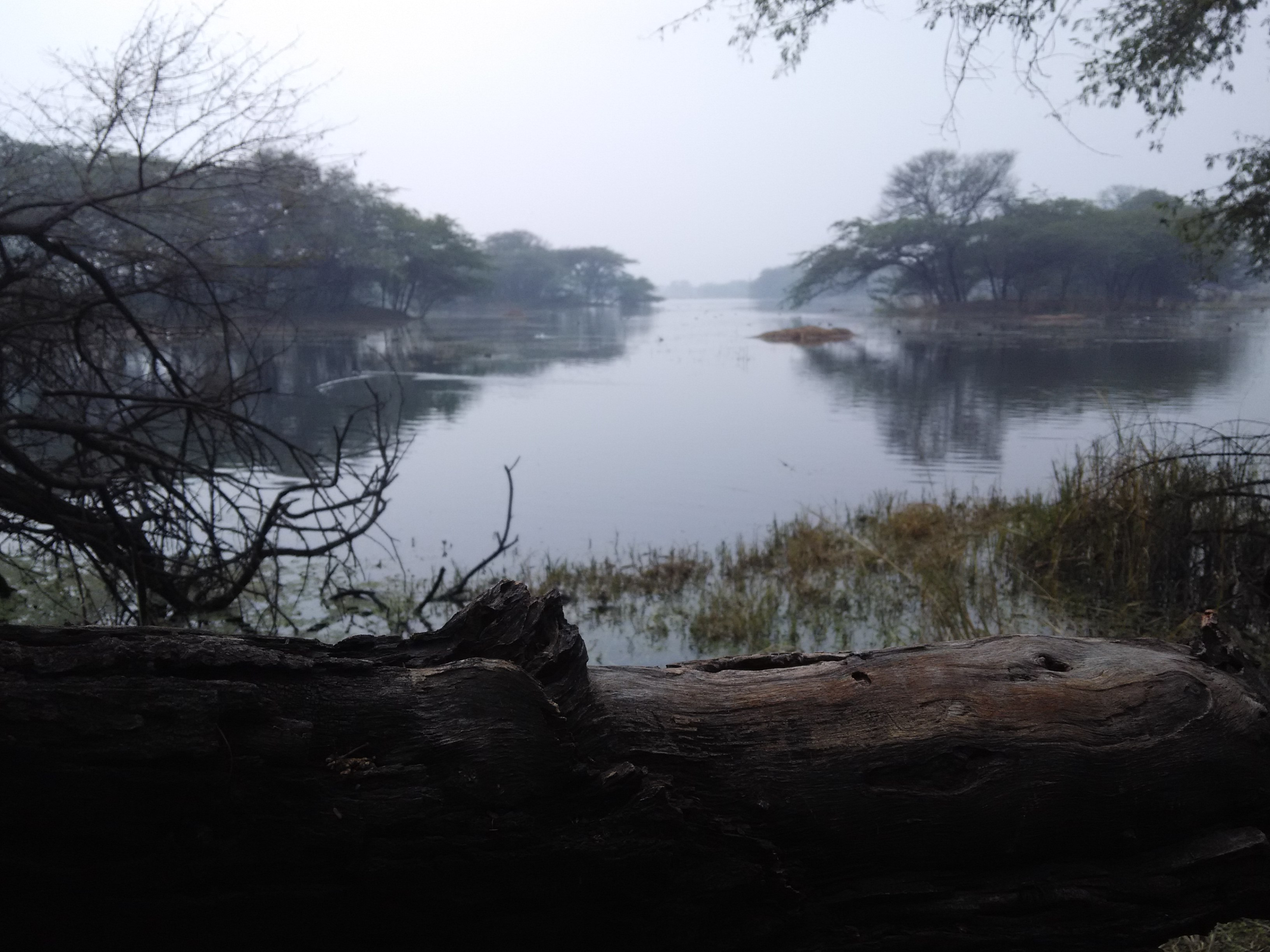 a dead tree laying on the ground